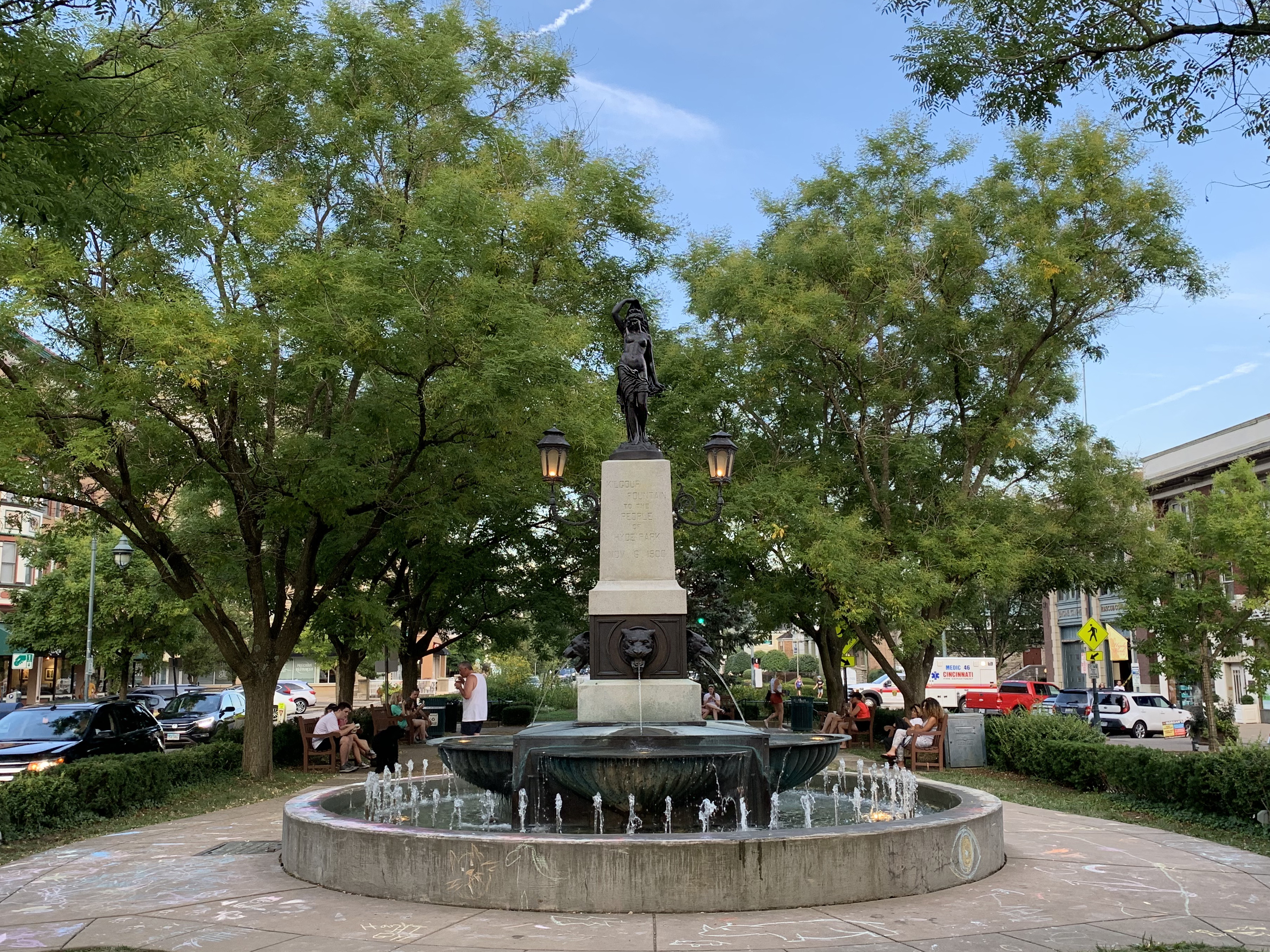 Hyde Park Square with the Kilgour Fountain in the center